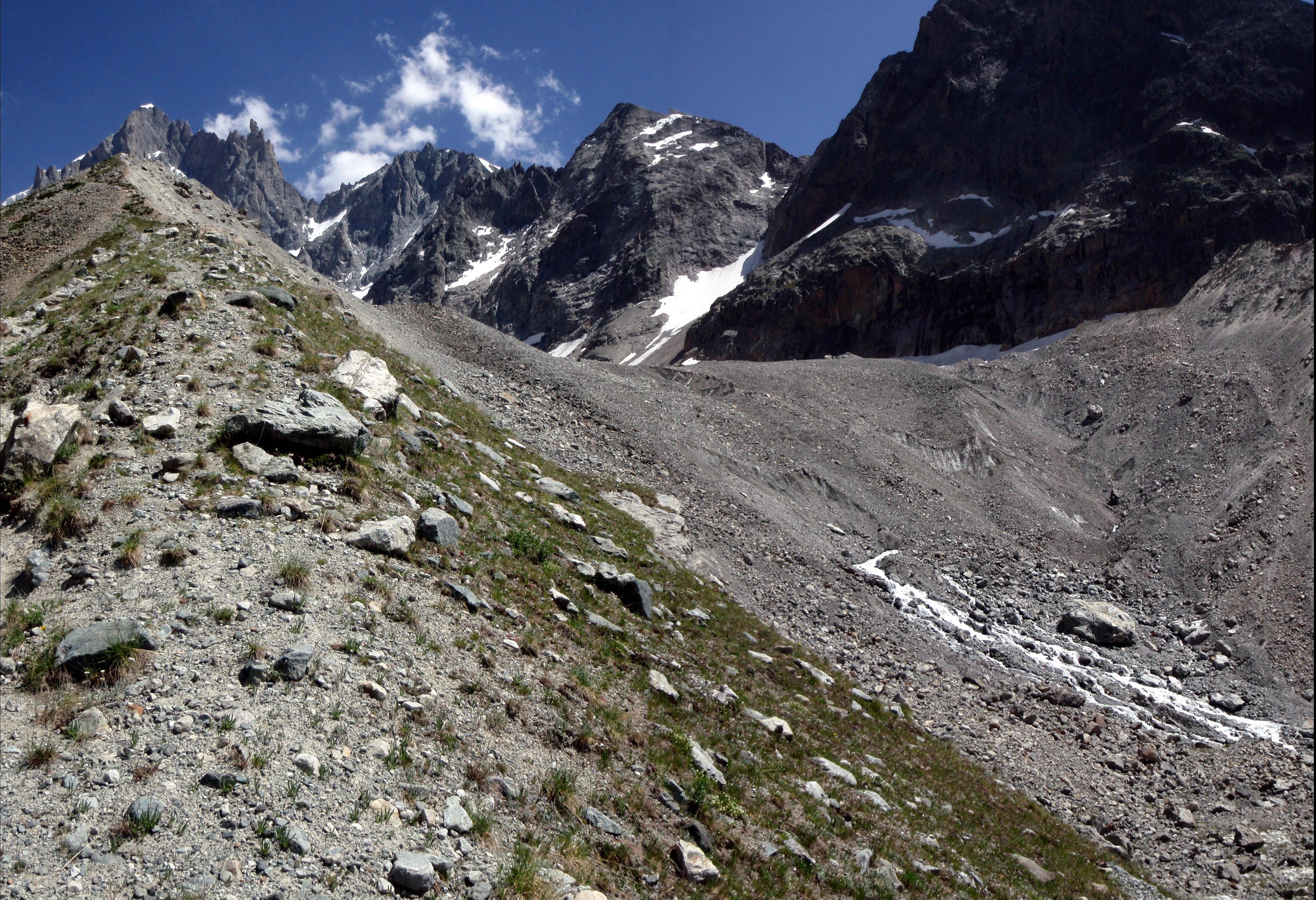 Le Glacier de Bonne Pierre, situated near the village of La Bérarde in Hautes Alpes, France. The highest peak in the background (above the moraine) is the Dôme de Neige des Écrins, 4.015 m. Photo was taken 16/07/2010.